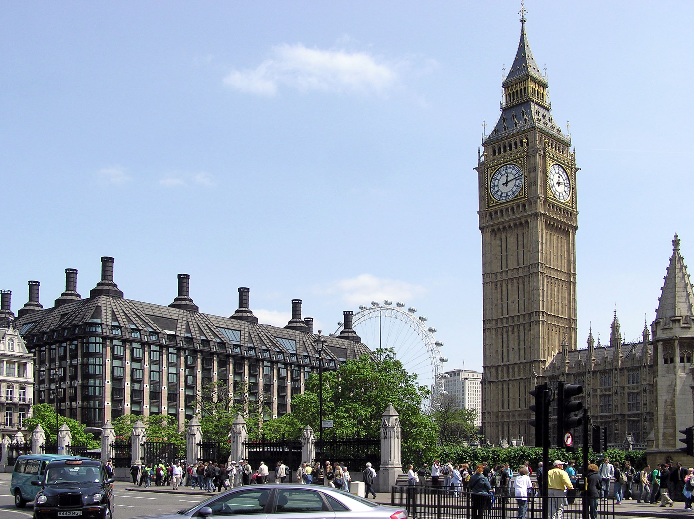 Portcullis House, the London Eye and Big Ben. Photographed by Adrian Pingstone in June 2005 and released to the public domain.